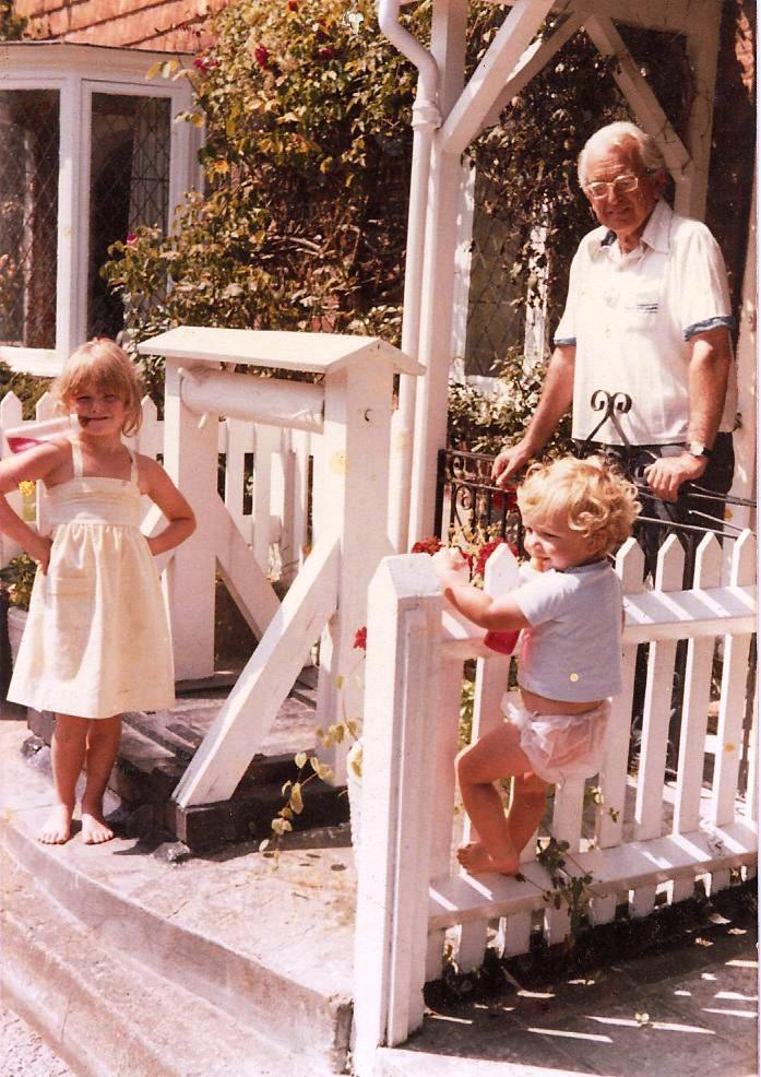 The well by Upper Street outside Well Cottage was for centuries the source of water for much of the village. Photo by the contributor in about 1978 of the then owner David Hines and two of his grandchildren Nicky and David Ogilvie.